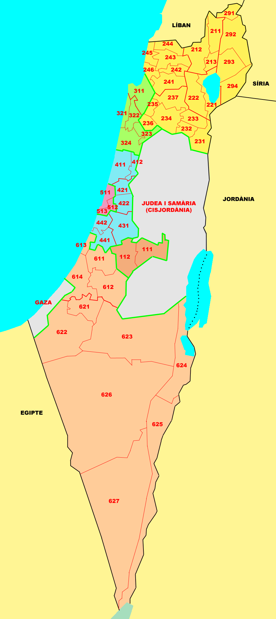 Natural regions of Israel Made with Photoshop